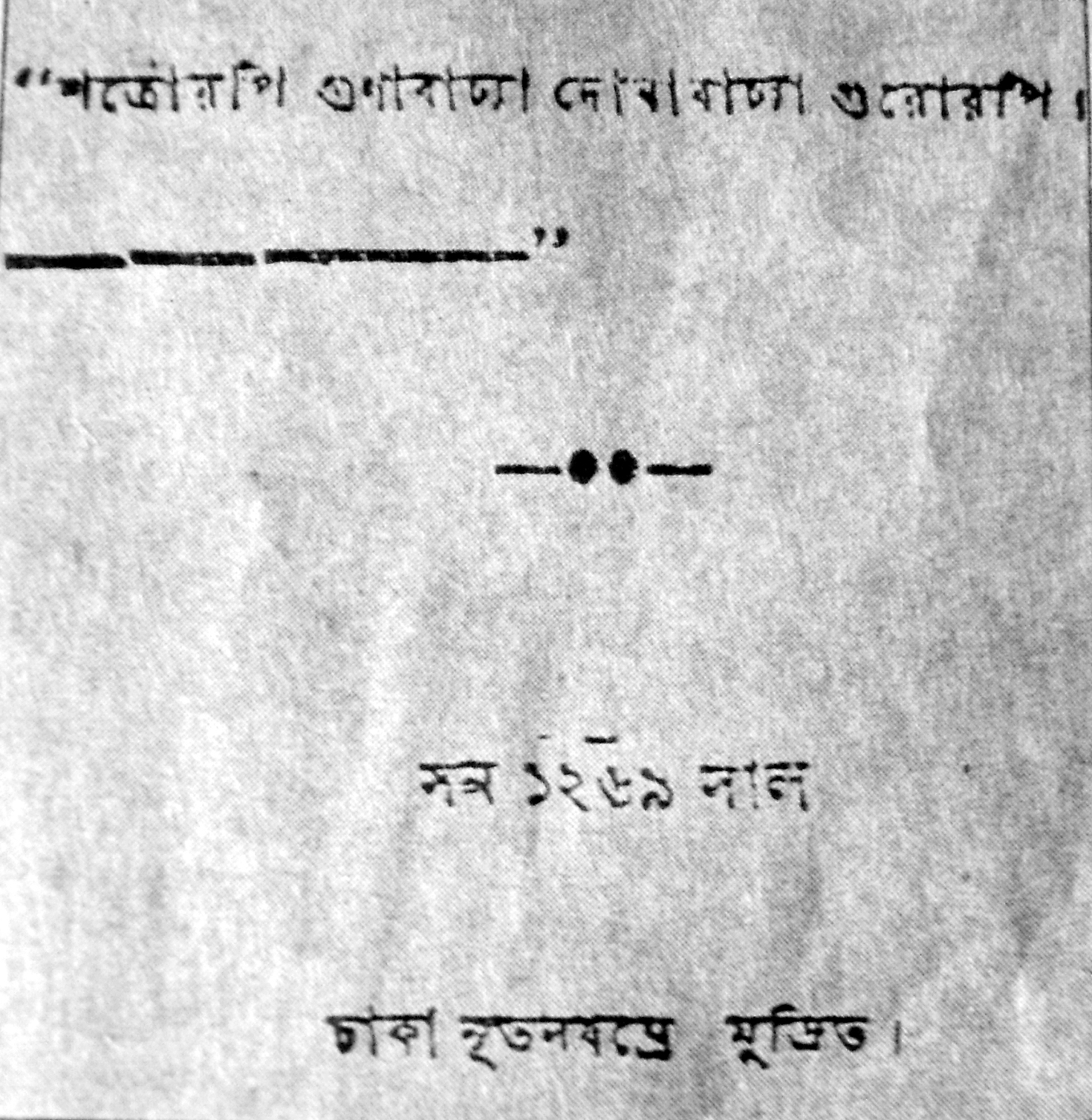 Cover Page of magazine Dhaka Prokash, circa 1863